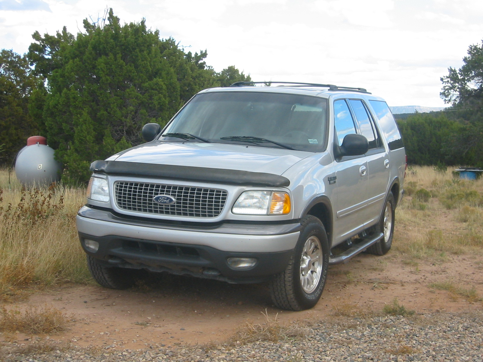 Source: Personal Camera 2002 Silver Ford Expedition